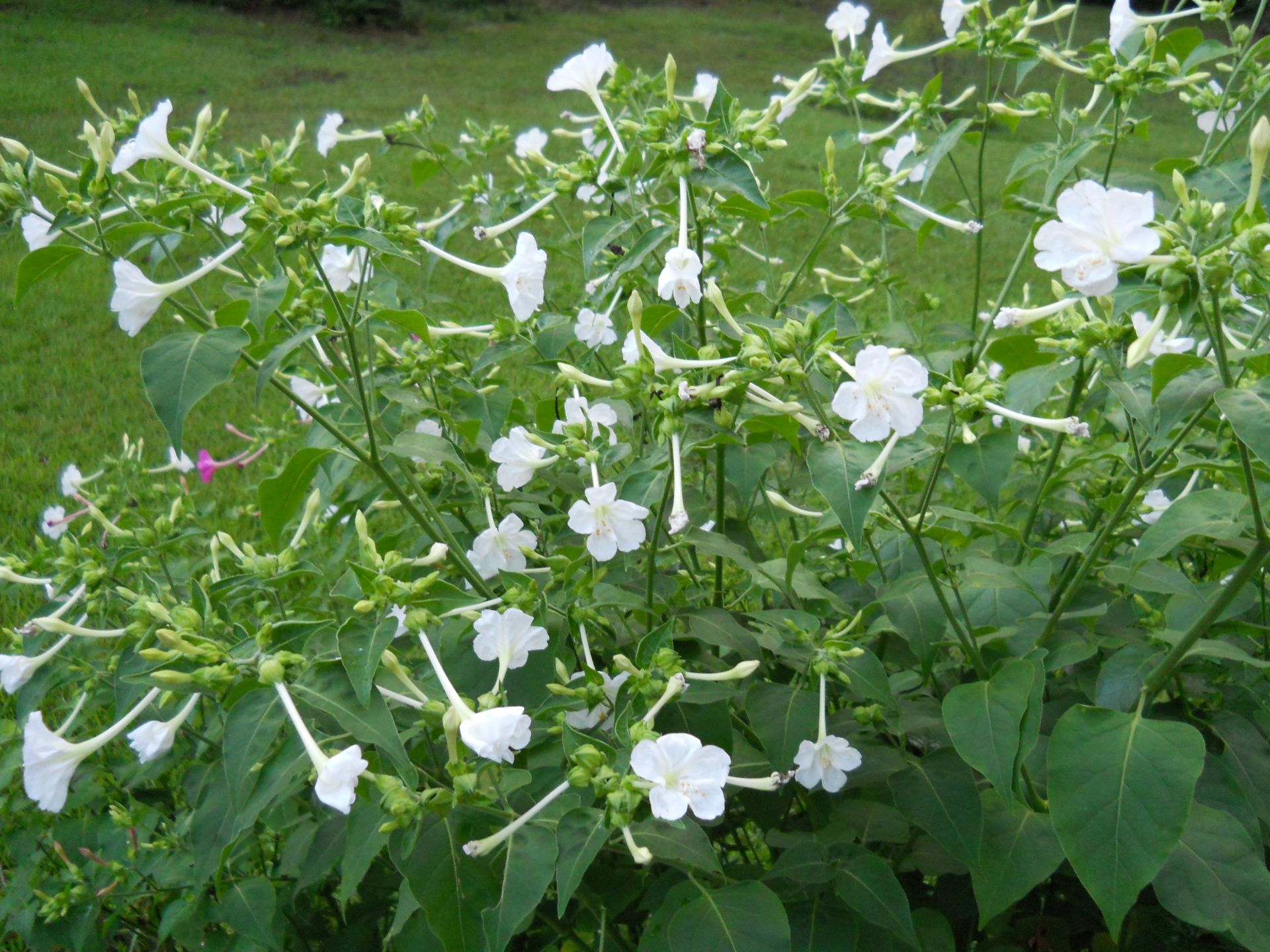 4-o'clock plant in full bloom, south Mississippi, USA